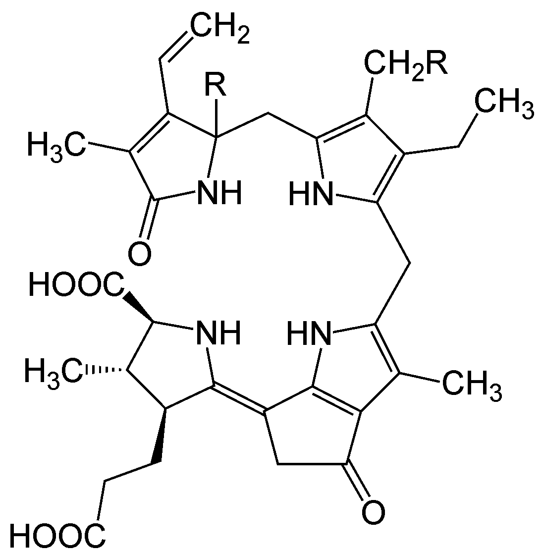 Luciferin from dinoflagellates (R=H) or euphausiids (R=OH)